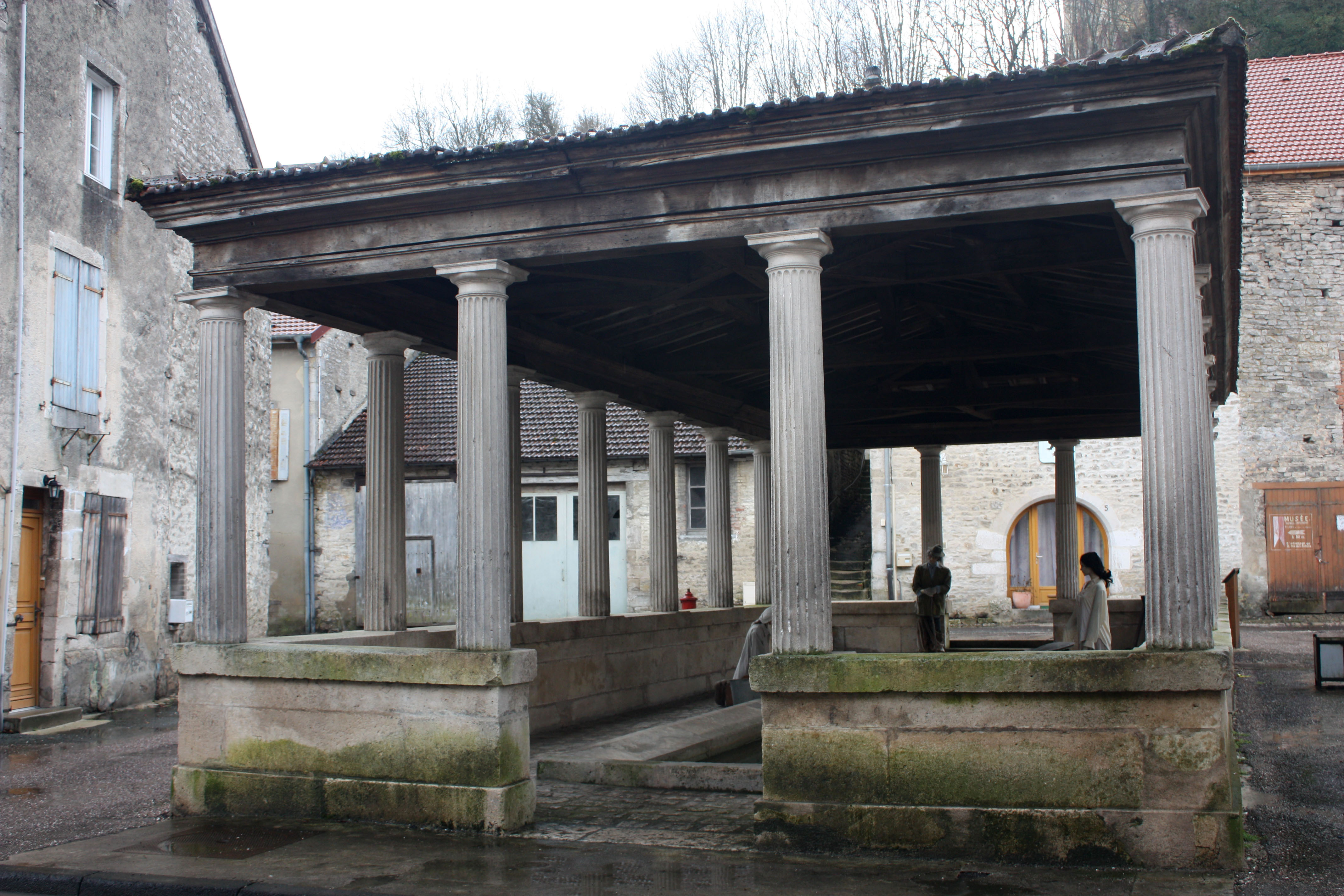 Wash house built in 1833 by the architect Chaussier Chaumont, in a neo-greek style.